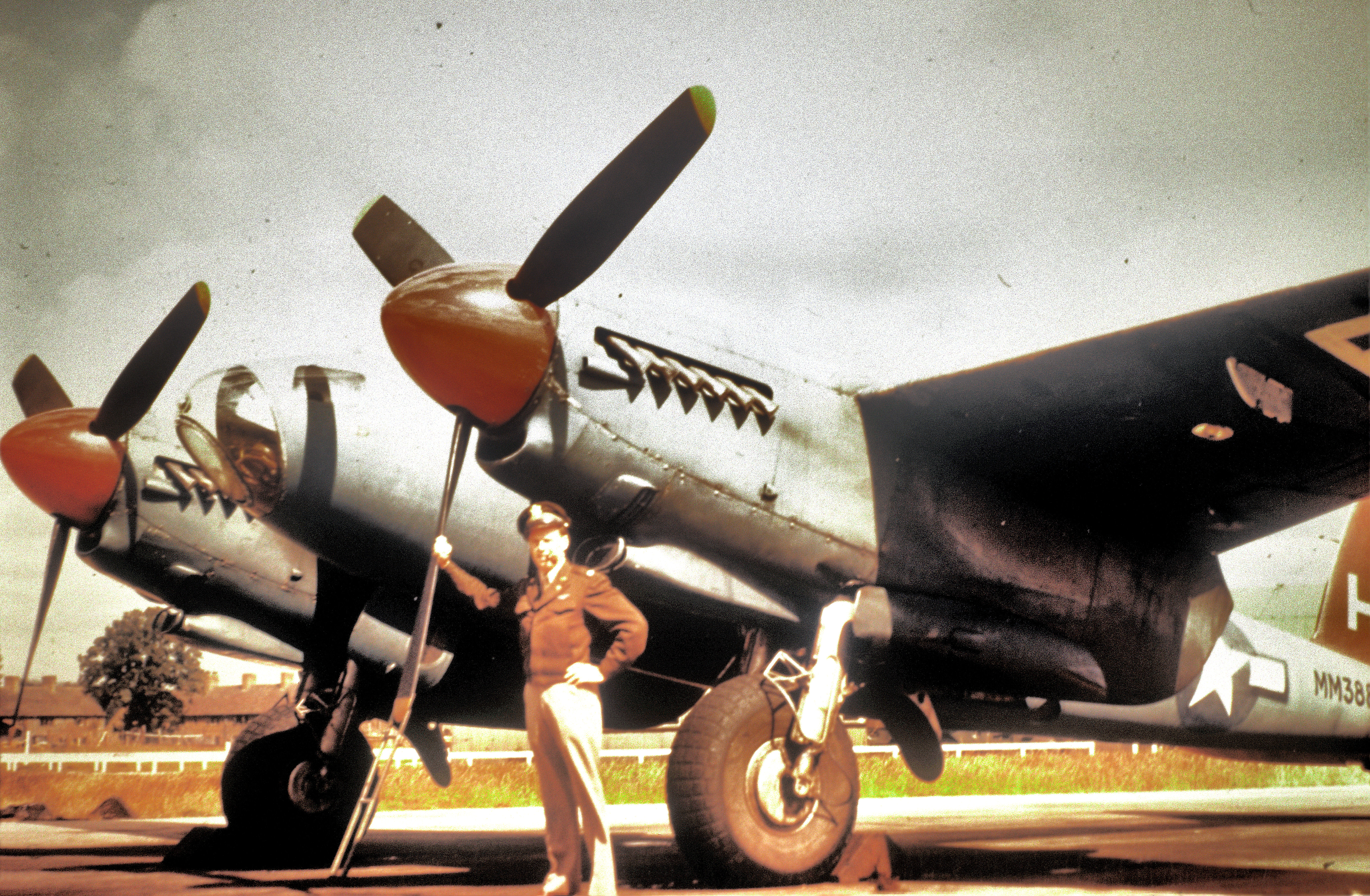 An airman of the 25th Bomb Group with a Mosquito (H, serial number MM 388). Written on slide casing: 'MM 388 H- 654 BS.'